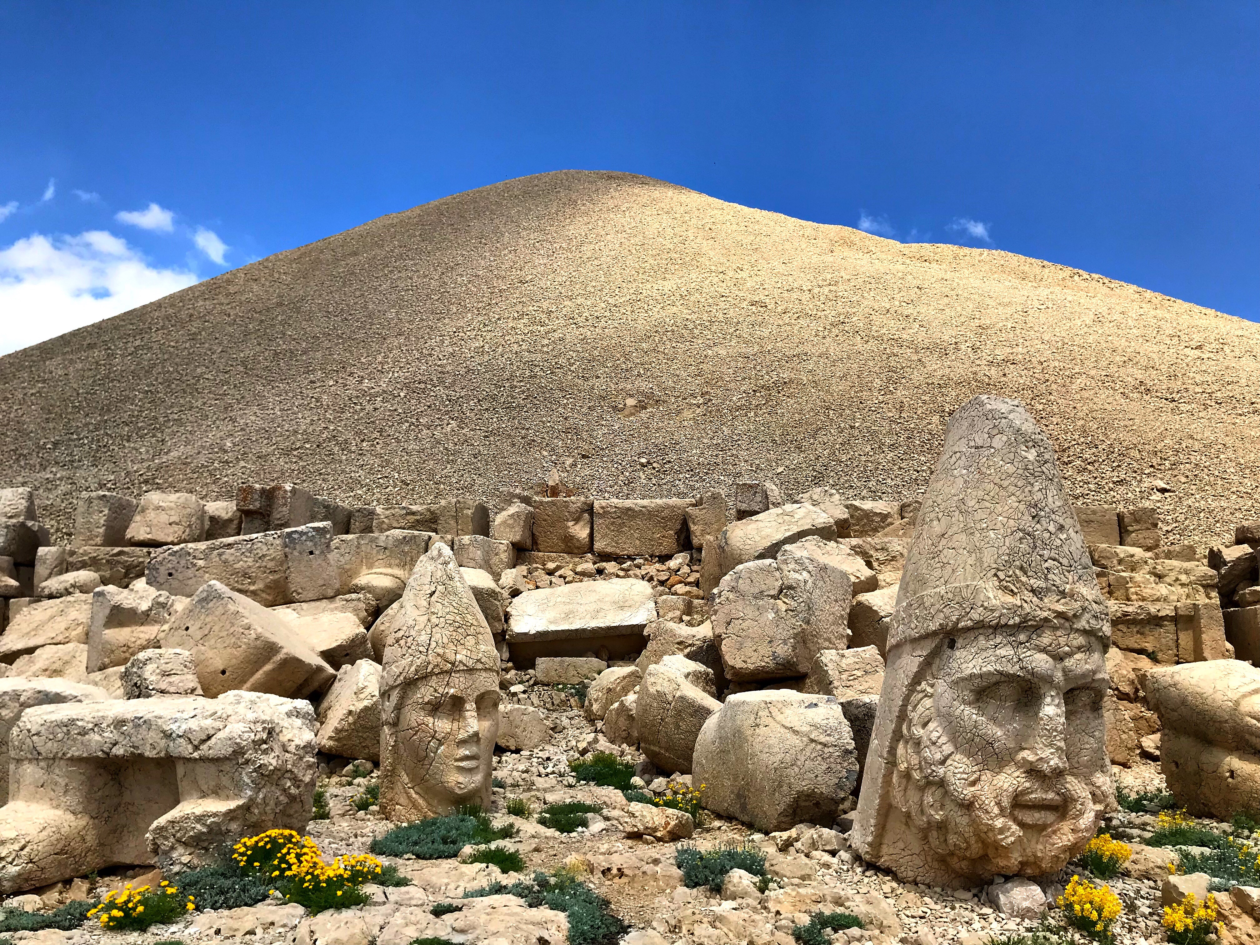 Processed with RNI Films